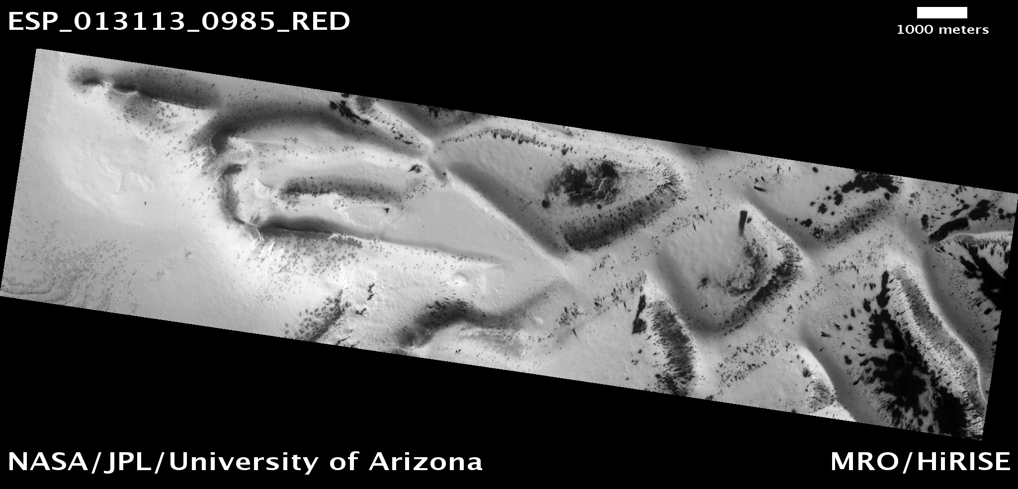 Area is called the Inca City. This image shows defrosting. Location is 81.3 S and 295.8 E